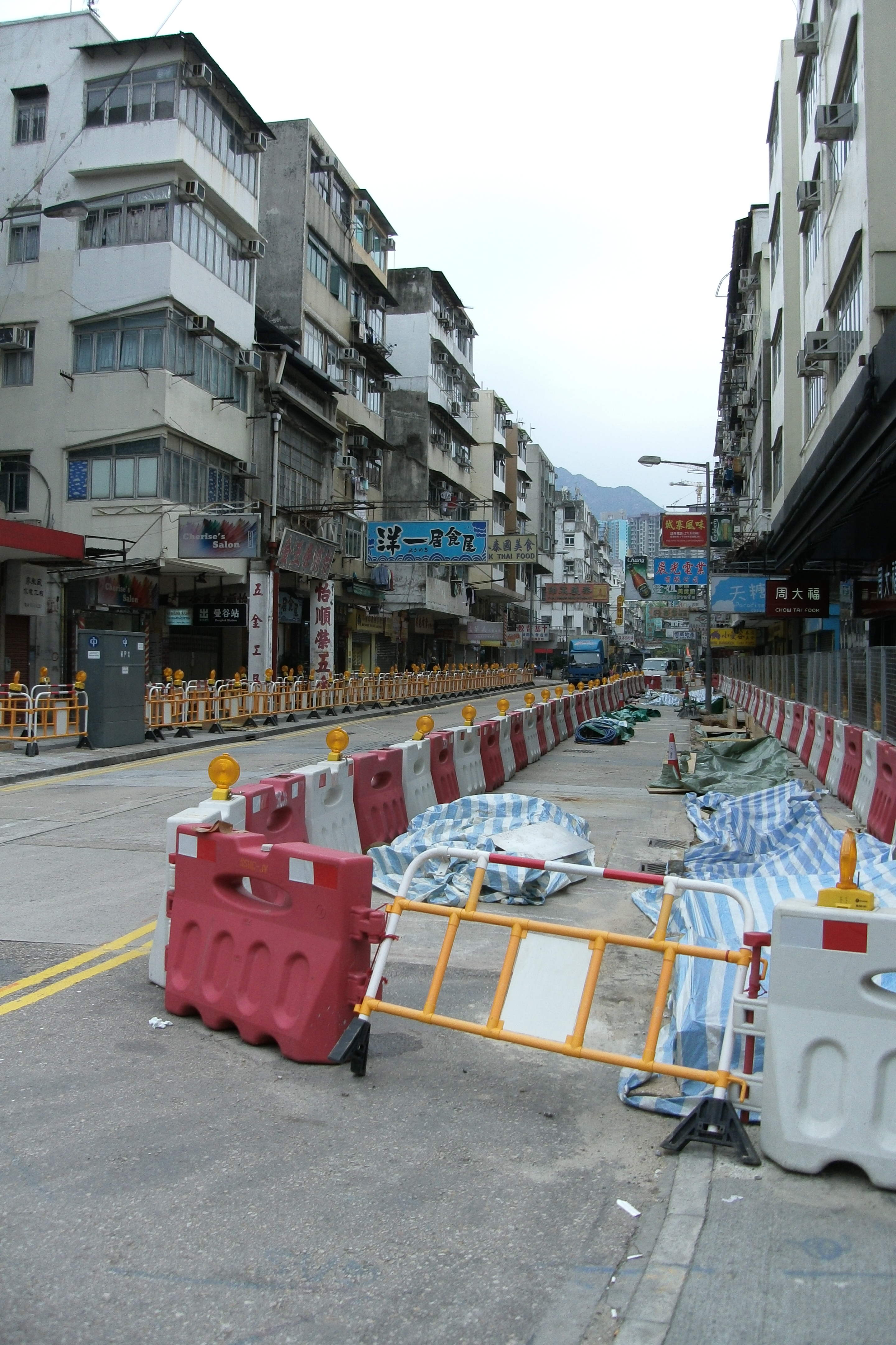 Nam Kok Road